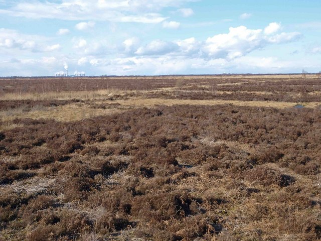 Looking out from Thorne Moors viewing platform A distant Drax Power station can be seen on the horizon.